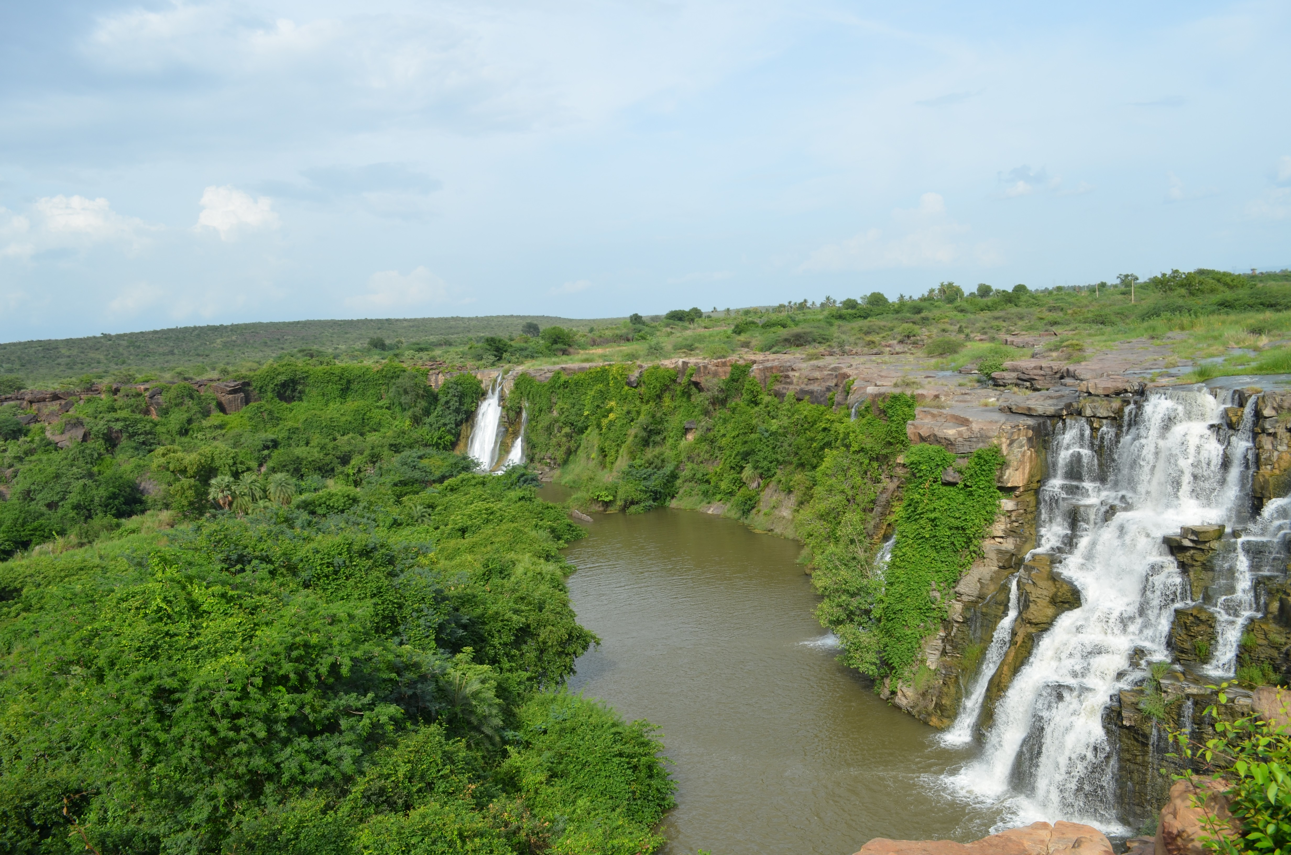 Etthipothala water falls located in India, state of Andhra Pradesh, 10 KM from famous Dam Nagarjuna sagar